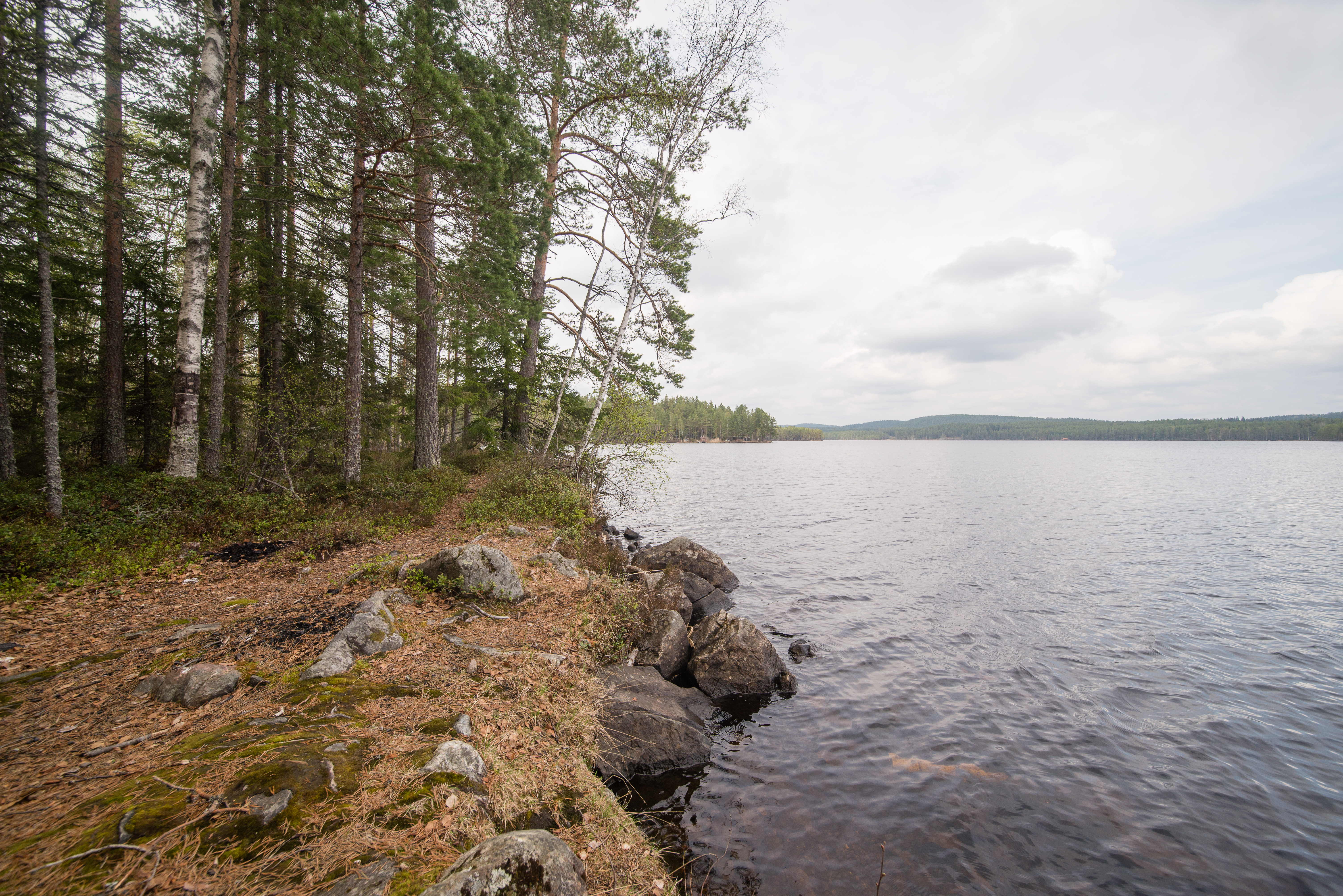 Lake Hyttsjön, Leksand municipality.